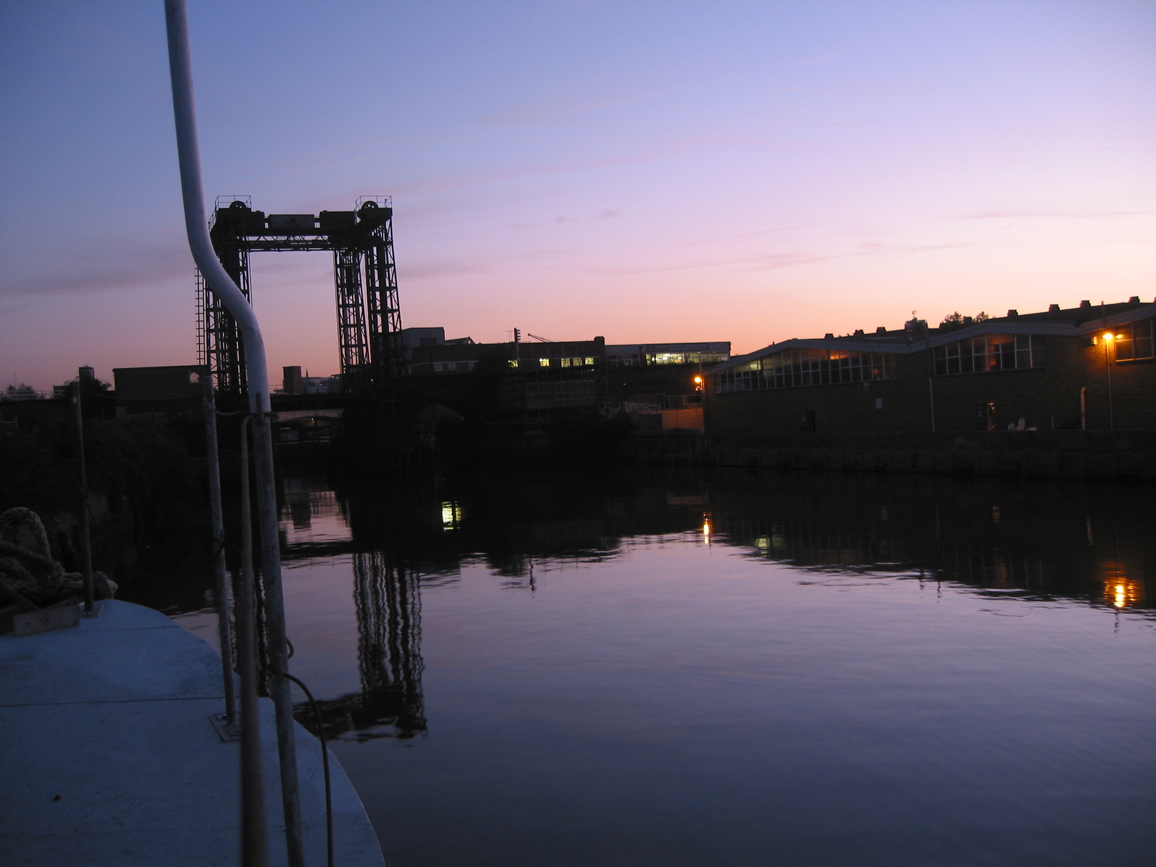 View of Deptford Creek and the sluice gate from the Mindsweeper boat Deptford creeksidedeptford creekside and sluice gate from the Mindsweeper boat